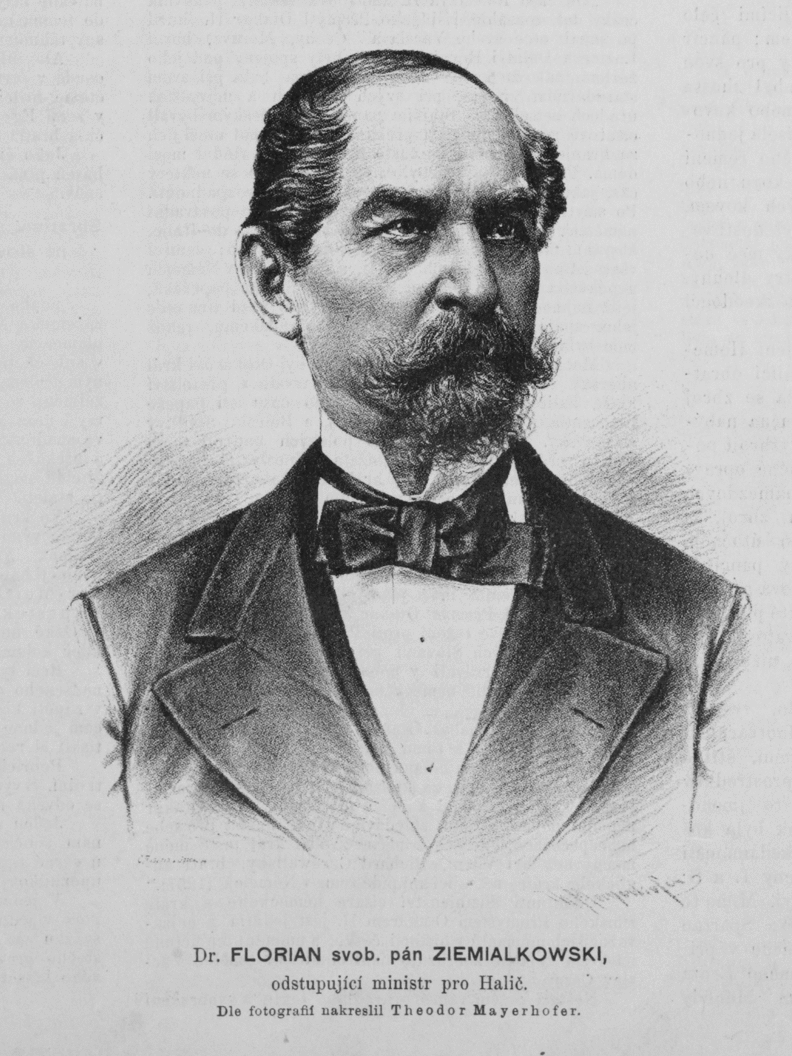 Portrait of Florian Ziemiałkowski (1817-1900), Polish politician in Austrian Galicia.